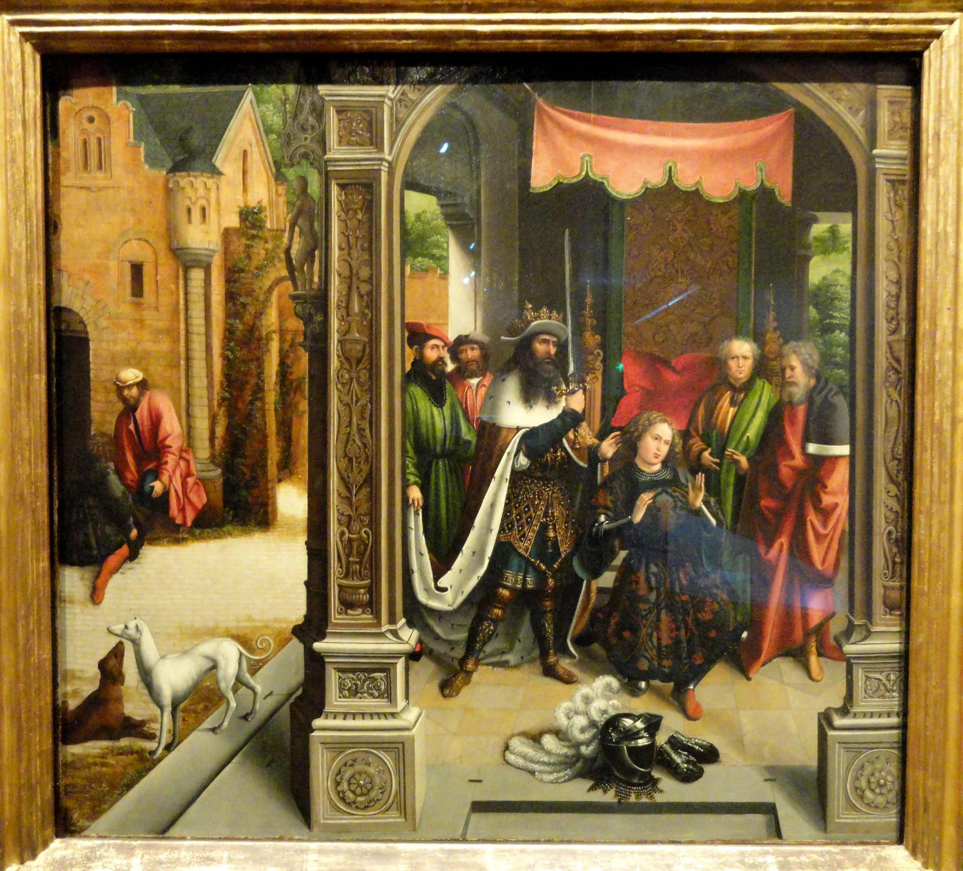 Exhibit in the Nelson-Atkins Museum of Art, Kansas City, Missouri, USA. ; I took this photograph and release it into the public domain.